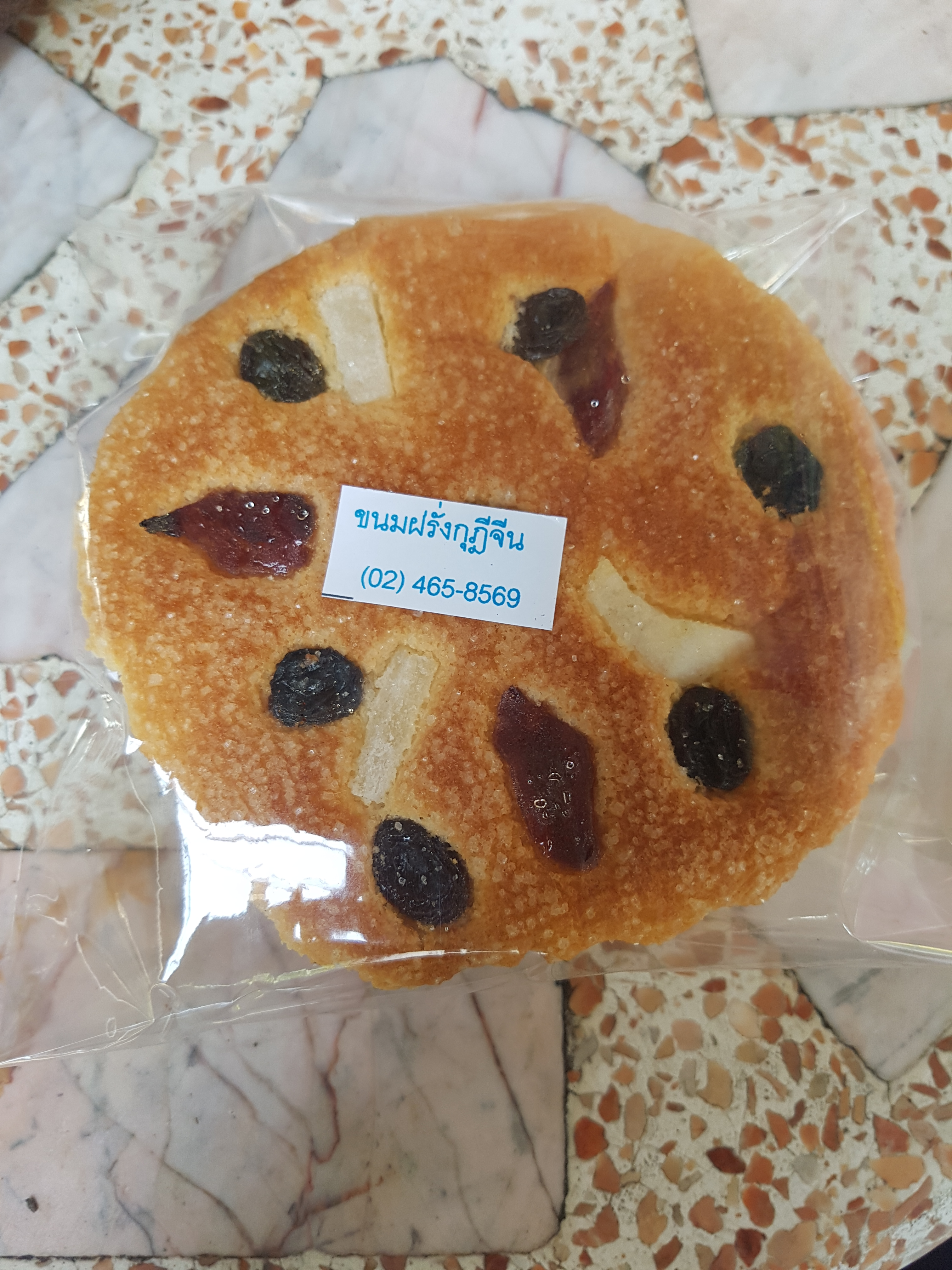 Khanom Farang Kudi Chin (ขนมฝรั่งกุฎีจีน; "Western Snack of Kudi Chin"), a traditional Thai snack of Portuguese origin dating back to the time of the Thon Buri Kingdom.